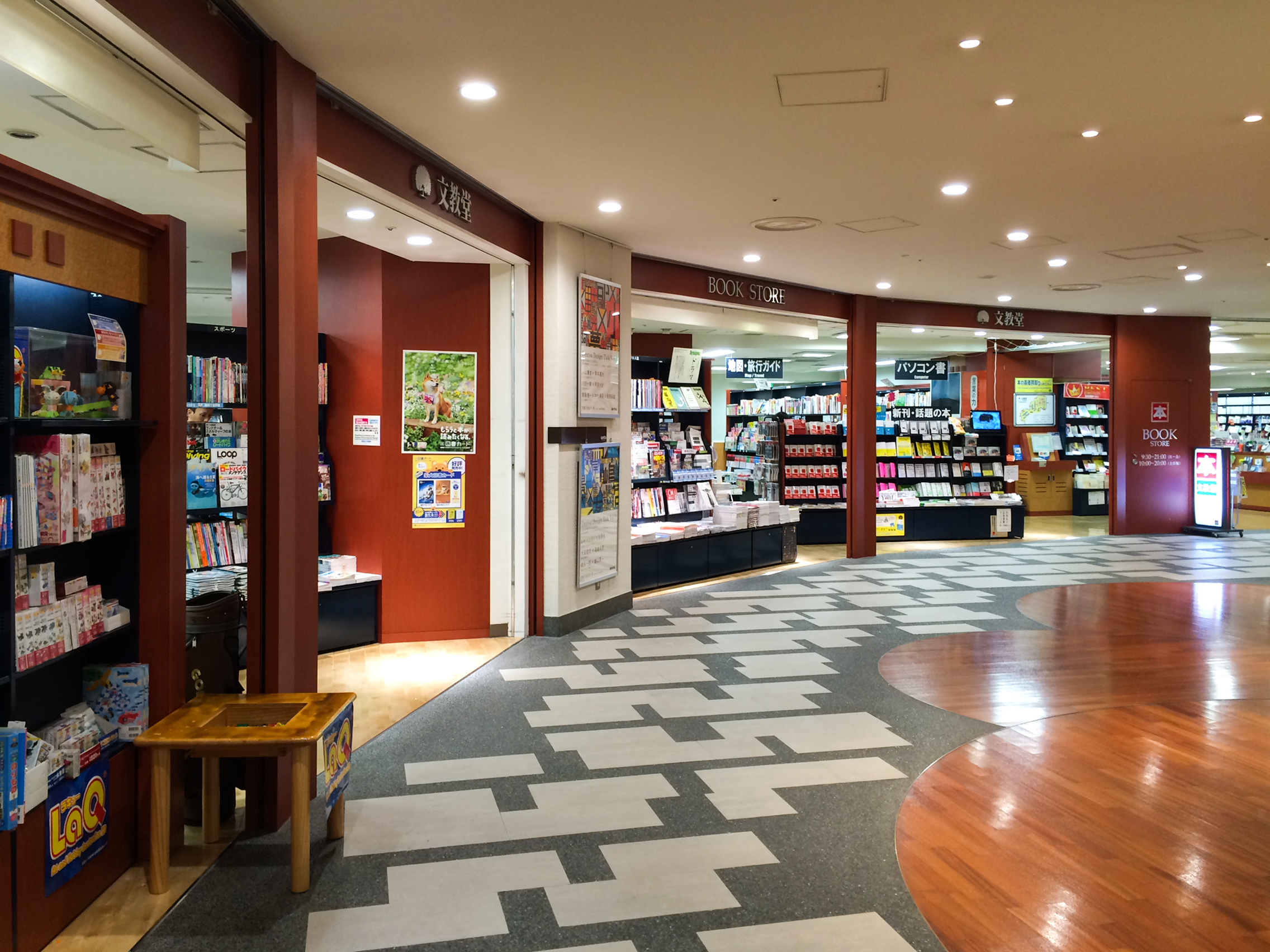 Bunkyodo Group Bookstore in Dentsu Building